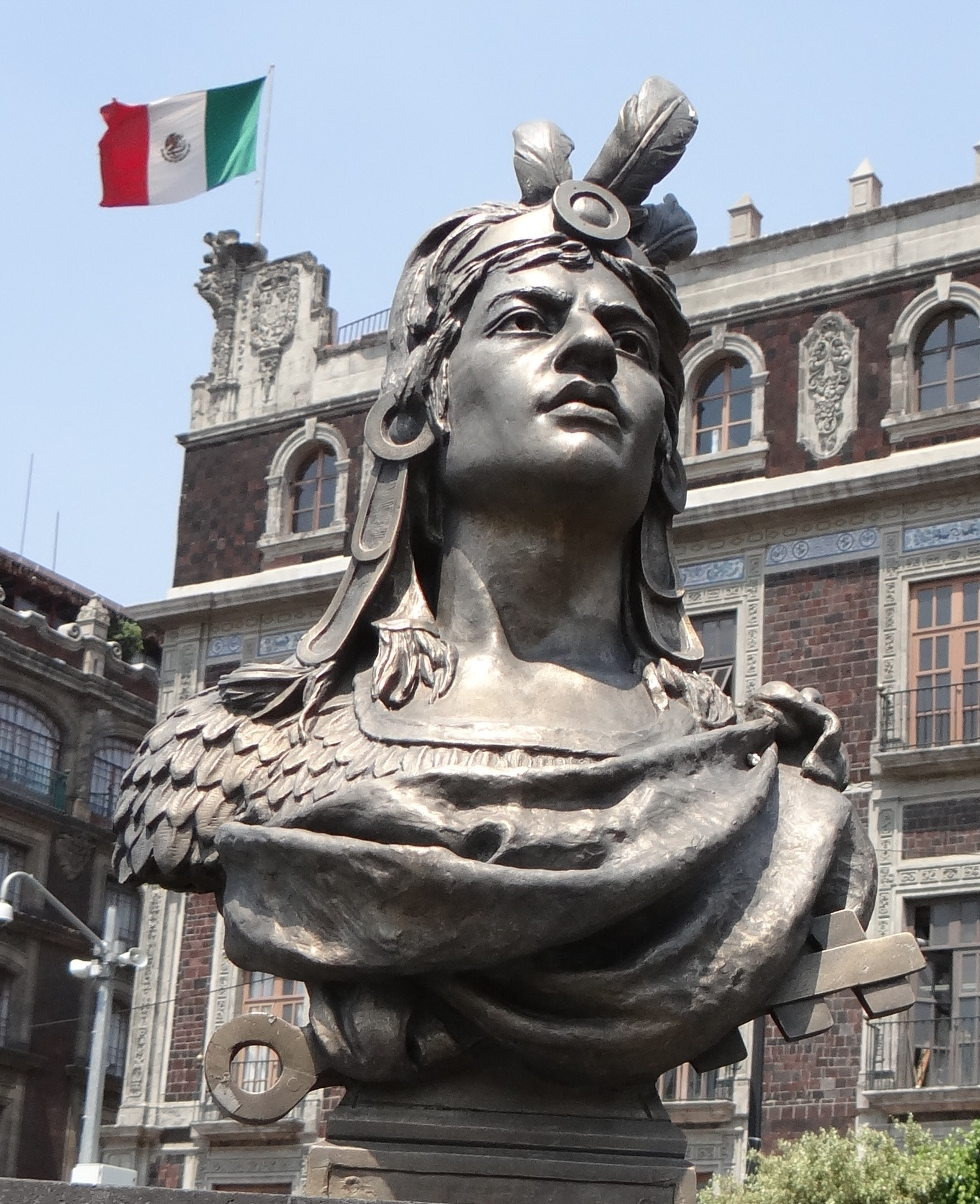 Bust of Cuauhtémoc in the Zócalo, Mexico City